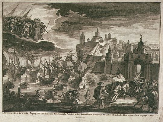 Spanish attack on Oran 1732